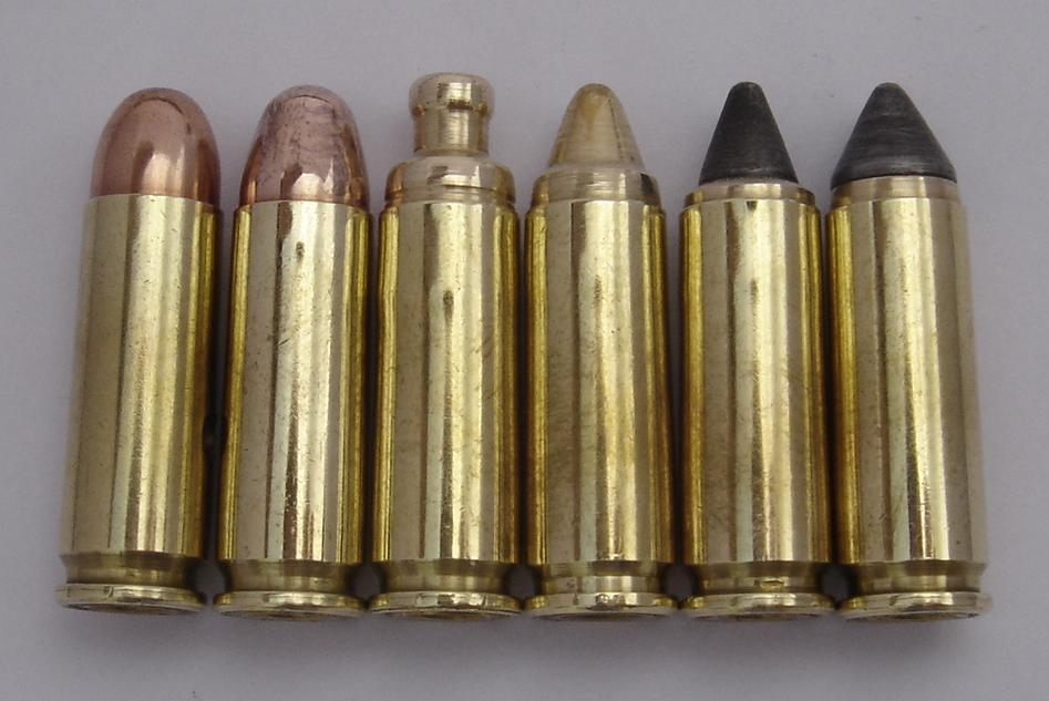 The basic 7.92x24 mm N series. 7.92x24 FMJ-RN, 7.92x24 FMJ-OGI, 7.92x24 C2F, 7.92x24 BAP, 7.92x24 AP6, 7.92x24 AP7.55